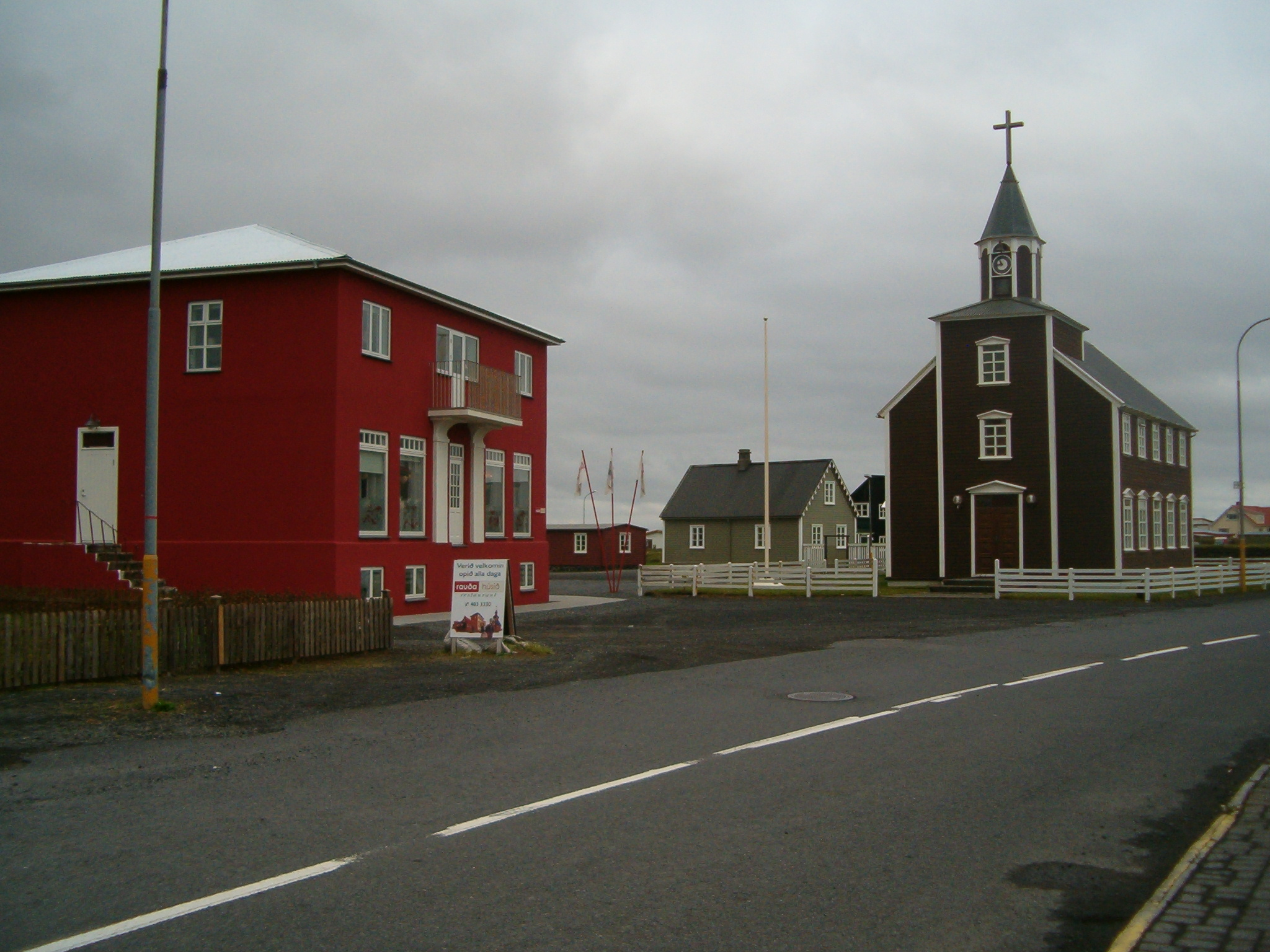 Eyrarbakki, Th Red House restaurant and the church.